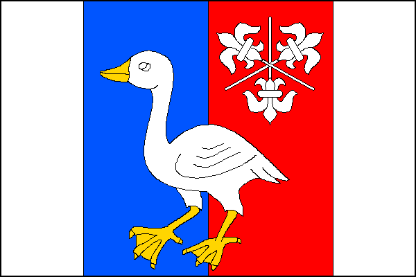 Municipal flag of Dražůvky village, Hodonín District, Czech Republic.